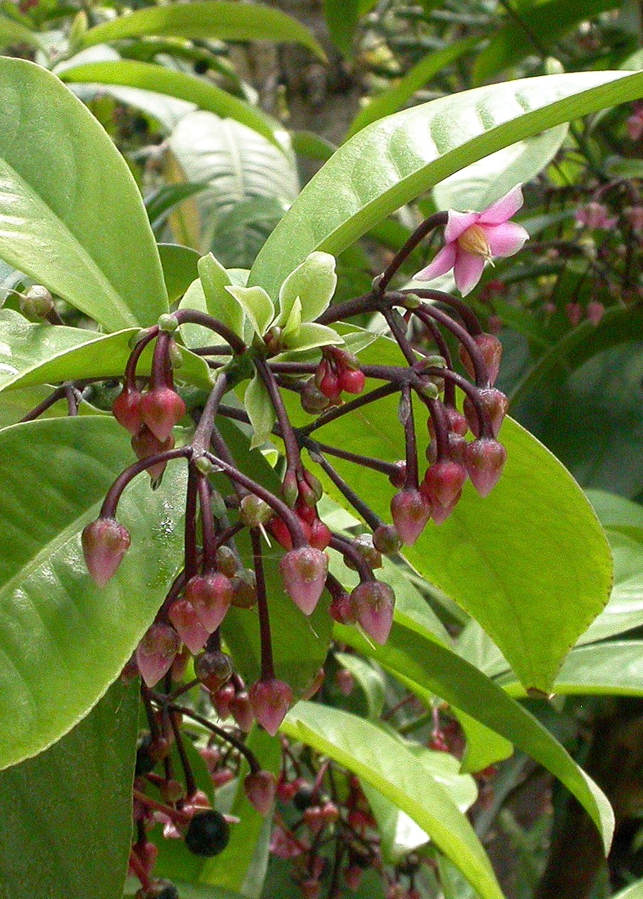 Flowering Ardisia polycephala in tropical glasshouse of Botanical garden Teplice, Czech republic